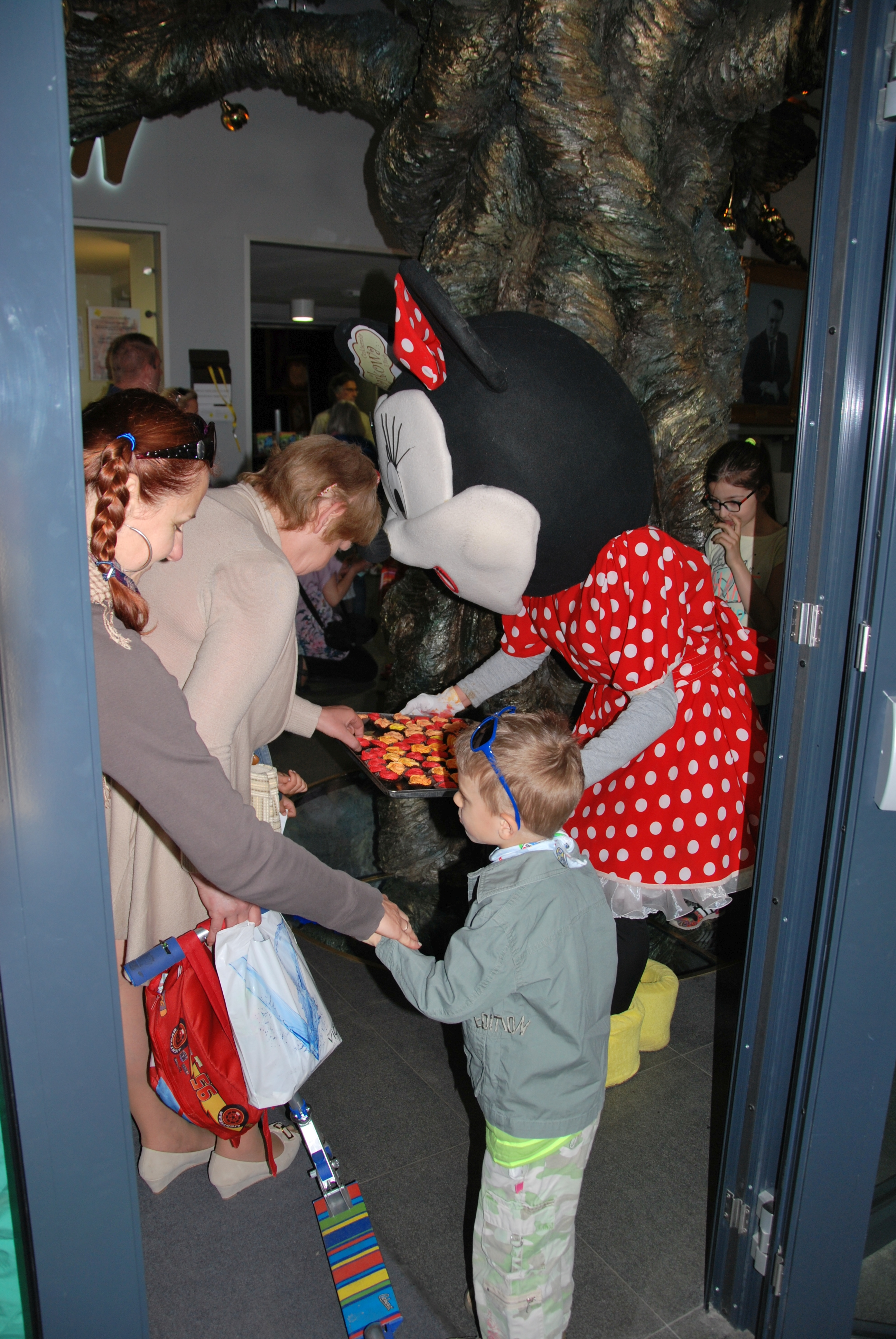 Children's Day, Łódź May 31 2015 01